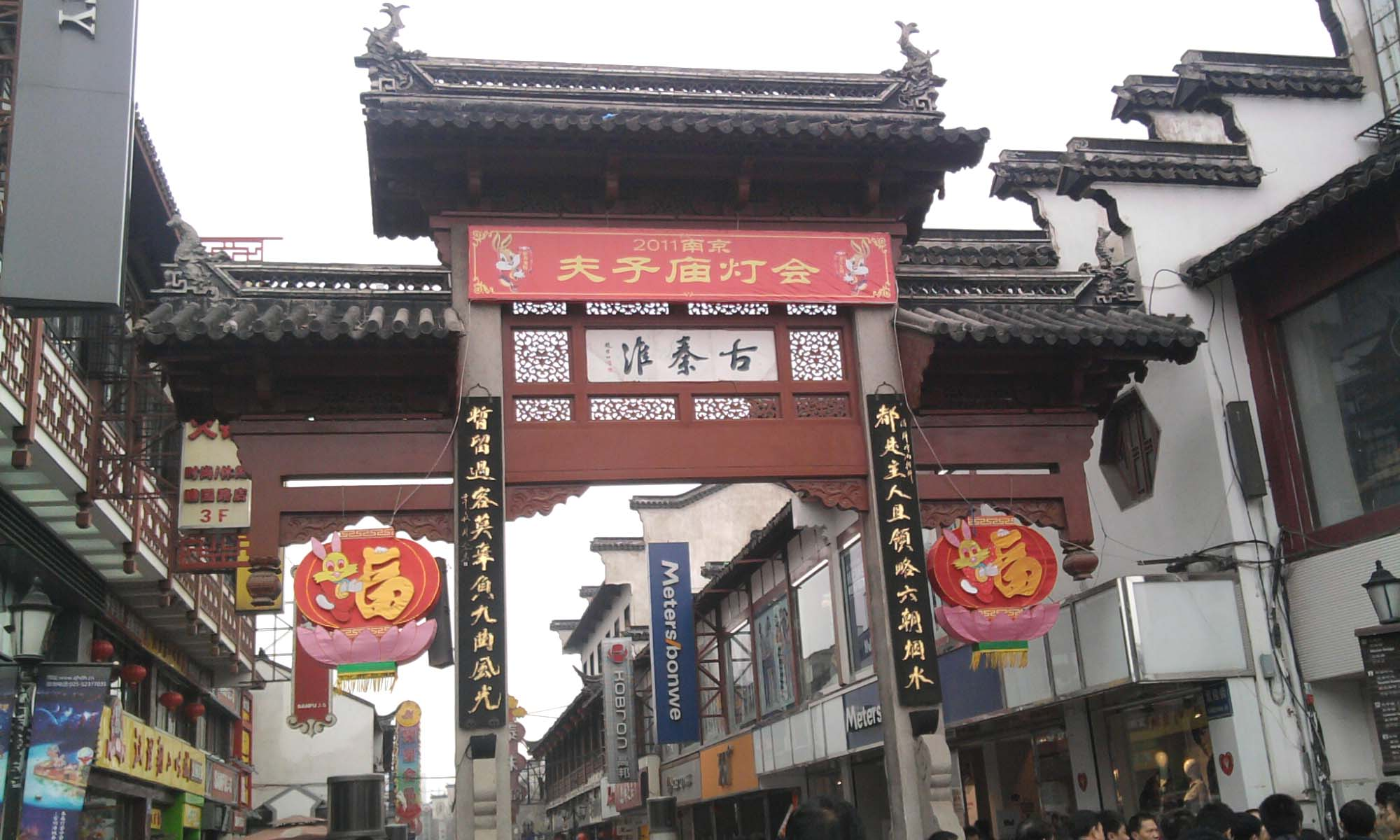 Qinhuai